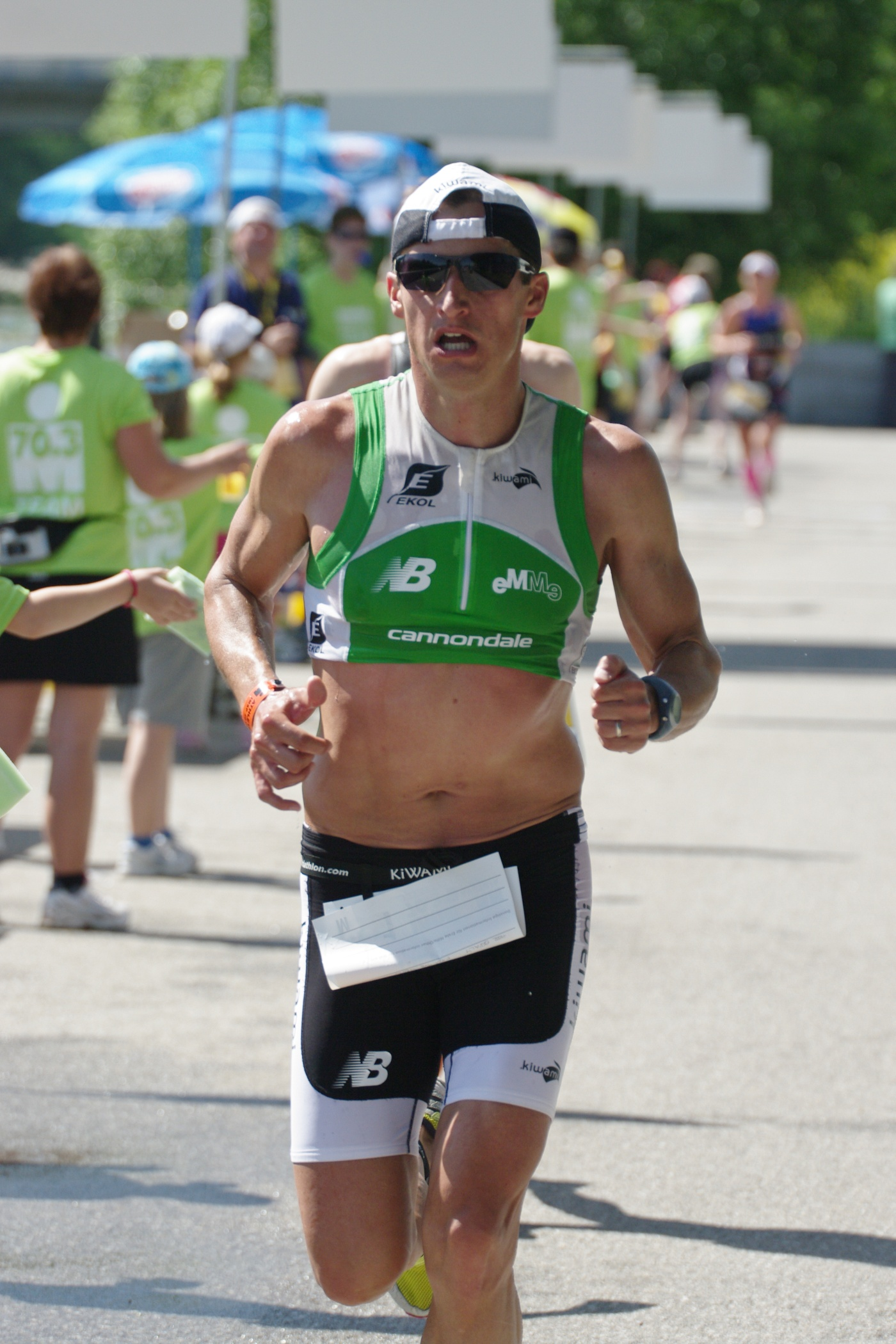 Czech triathlete Filip Ospalý in the Ironman 70.3 Austria on 20 May 2012 in St. Pölten.